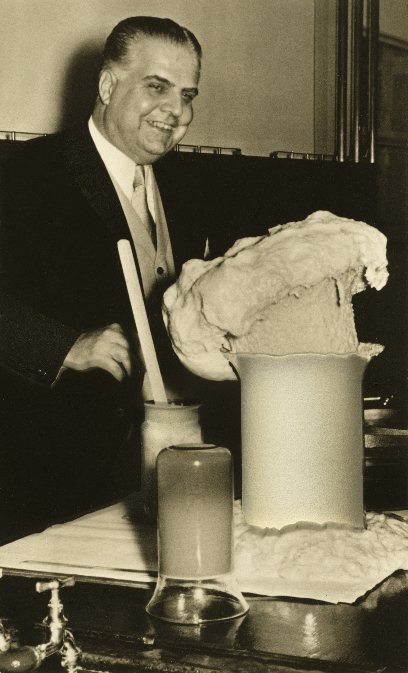 Prof. Otto Bayer in 1952 demonstrating his creation (from 1937), the polyurethane,.